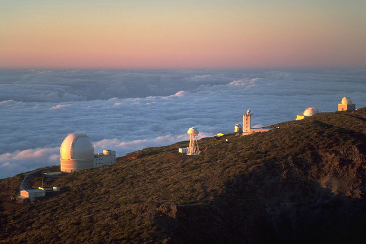 From left to right, the Carlsberg Meridian Telescope, William Herschel Telescope, Dutch Open Telescope, the Mercator Telescope, the Swedish Solar Telescope, the Isaac Newton Telescope (second from right) and the Jacobus Kapteyn Telescope (far right) at Roque de los Muchachos Observatory on La Palma